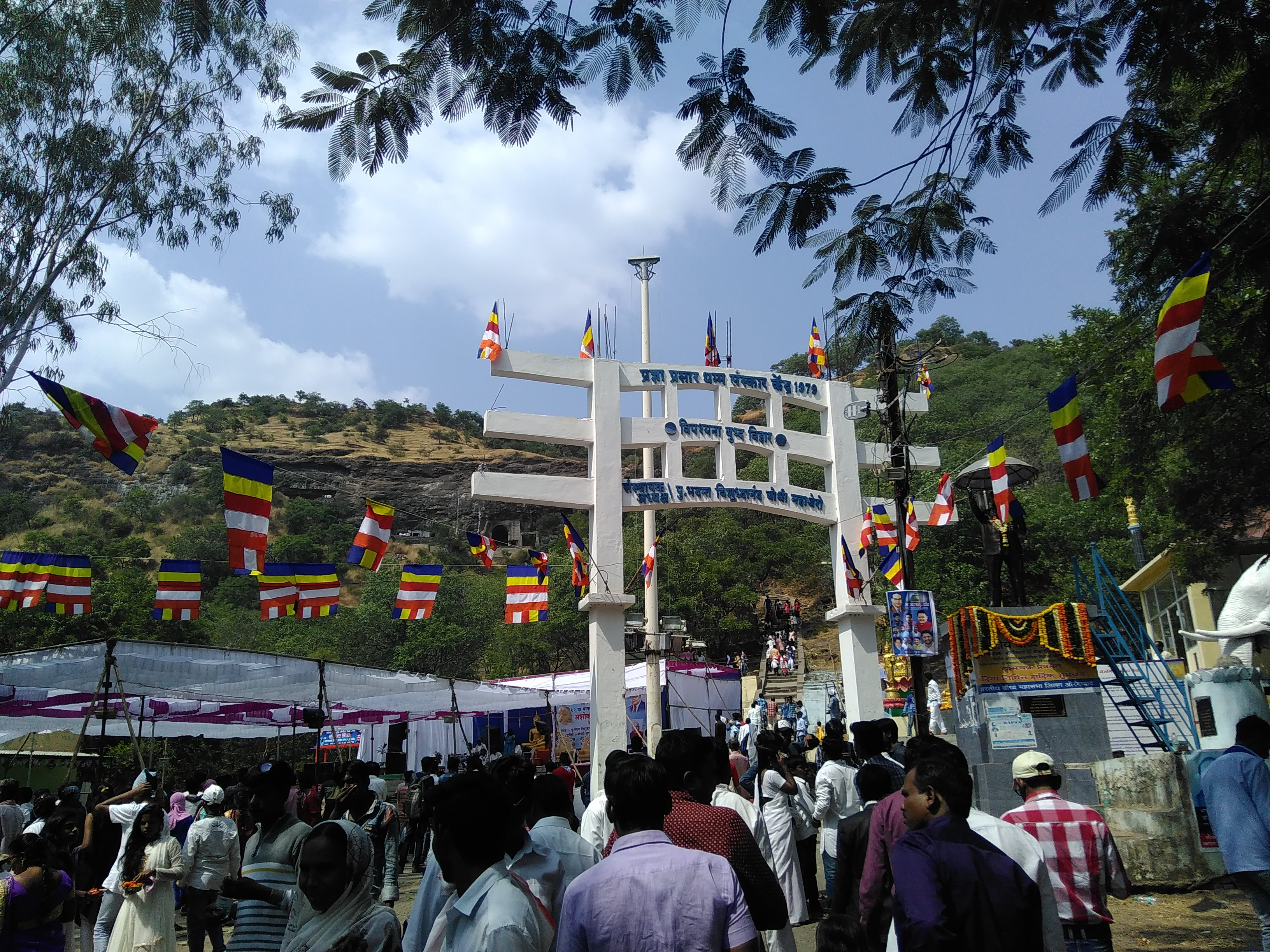 Gate of Vipassana Buddha Vihar and Aurangabad caves, and Ambedkar statue. Ambedkarite Buddhists are celebrating Dhammachakra Pravantan Din in Aurangabad.